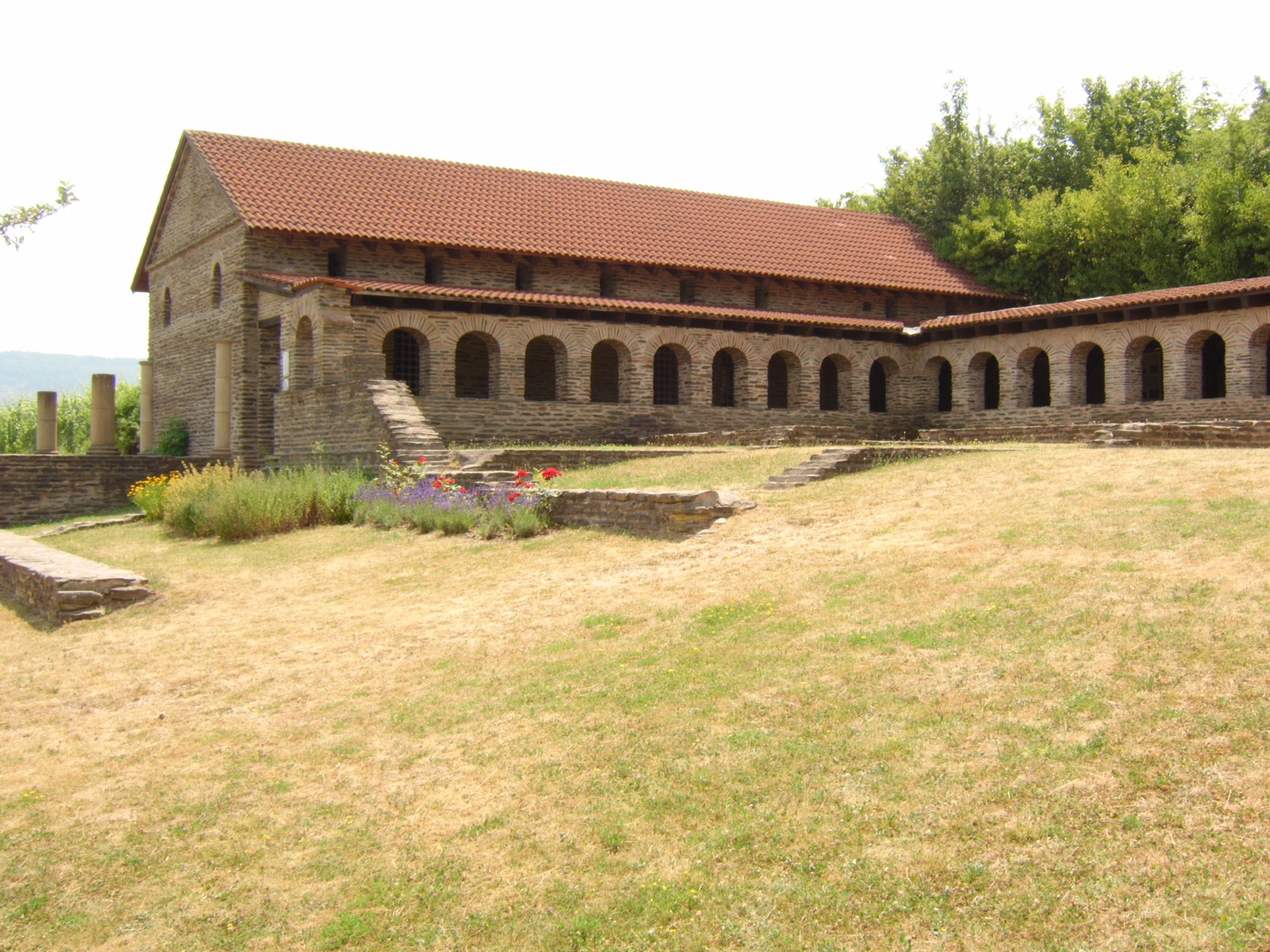 Villa Urbana in Longuich, a 2nd century Roman villa